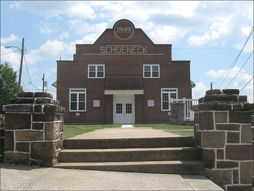 Old Firehouse, Downtown Schoeneck Schoeneck, Pennsylvania.